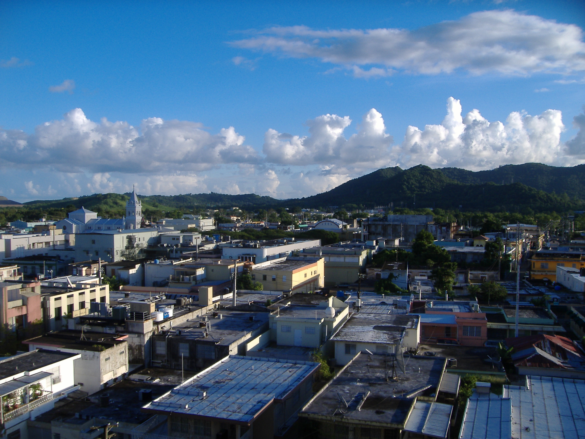 View of main town center of Humacao, Puerto Rico from its city hall.